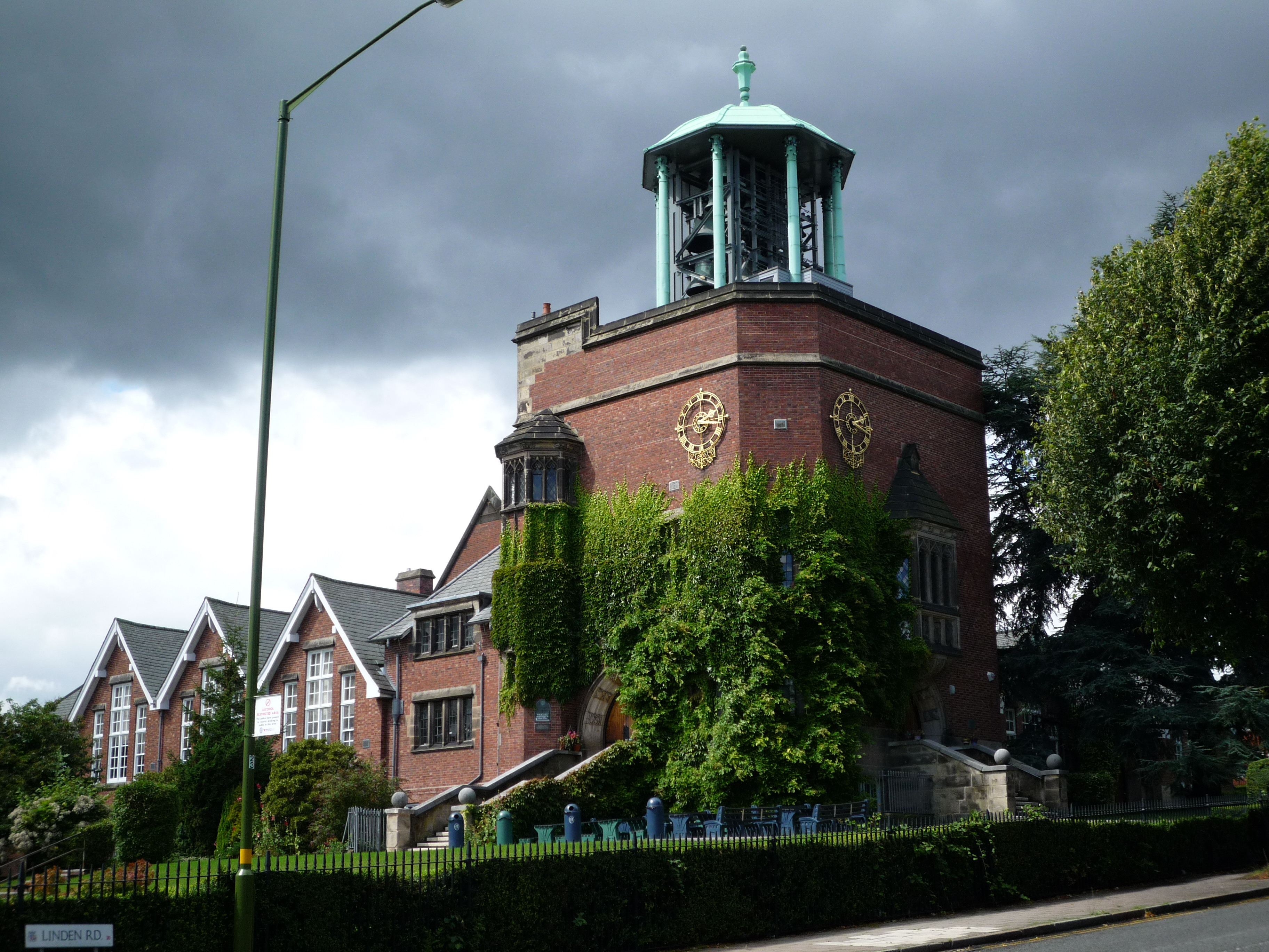 Bournville Junior School, Birmingham, England, with its 48 bell Bournville carillon